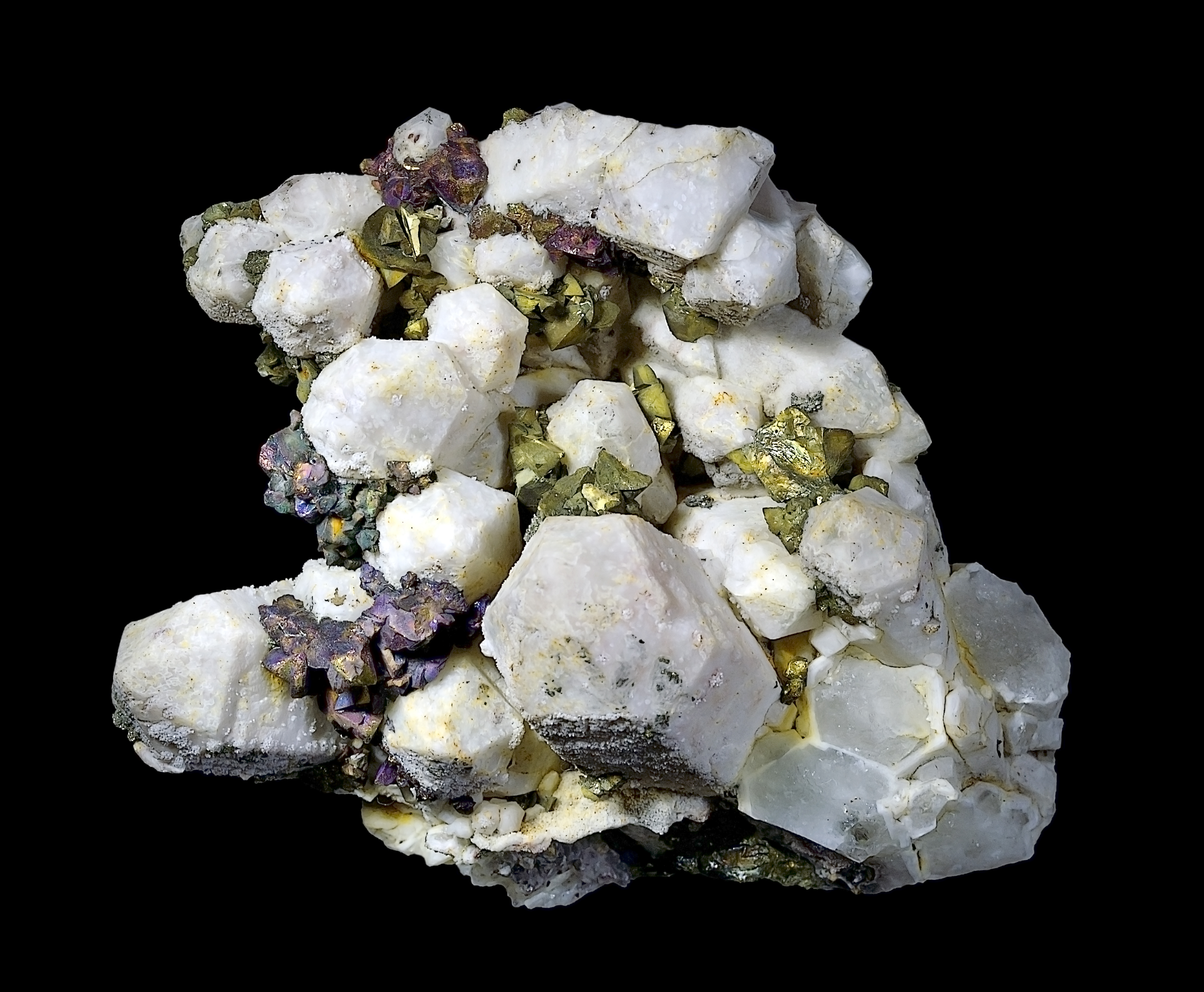 Chalcopyrite on Quartz - Former collection of the Faculty of Pharmacy of Paris N°3998 Locality : St Agnes District, Cornwall, England, UK Size : 8.9 x 6.9 x 4.9 cm